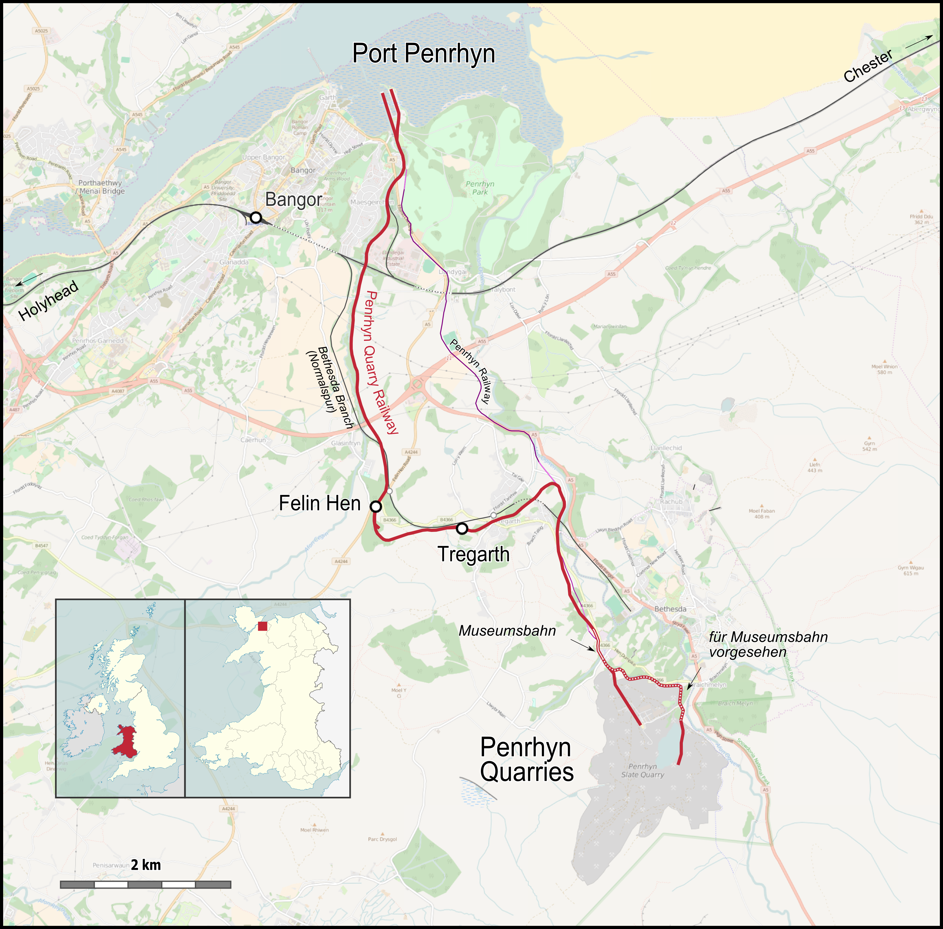 Map of Penrhyn Quarry Railway